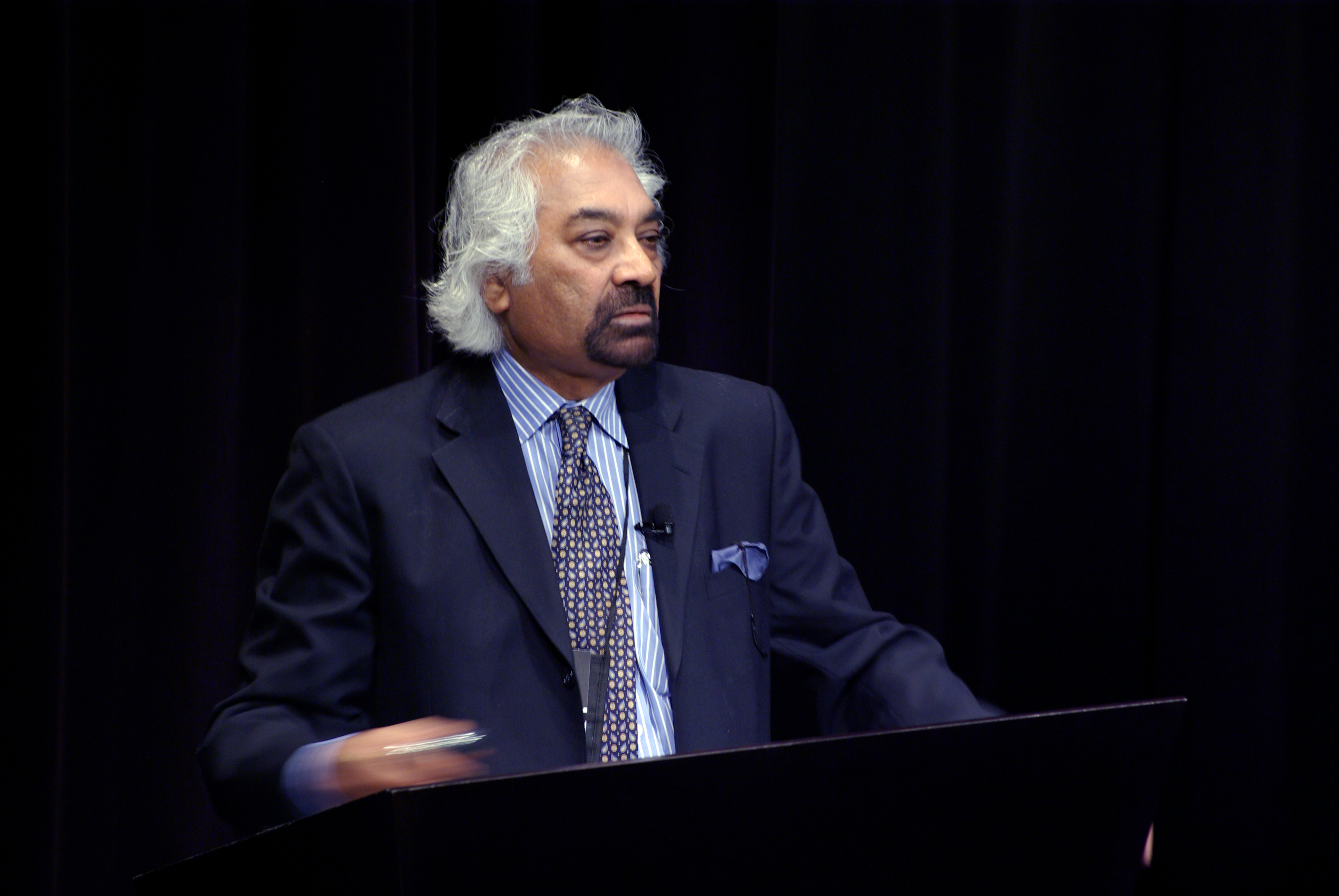 Sam Pitroda at the 2009 Innovation Summit